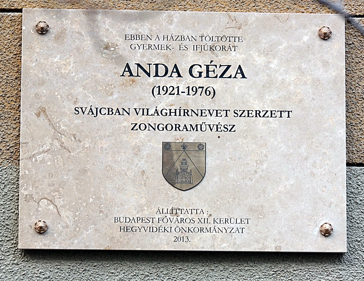 Géza Anda commemorative plaque in Budapest District XII, Tarcsay Vilmos Street No 19